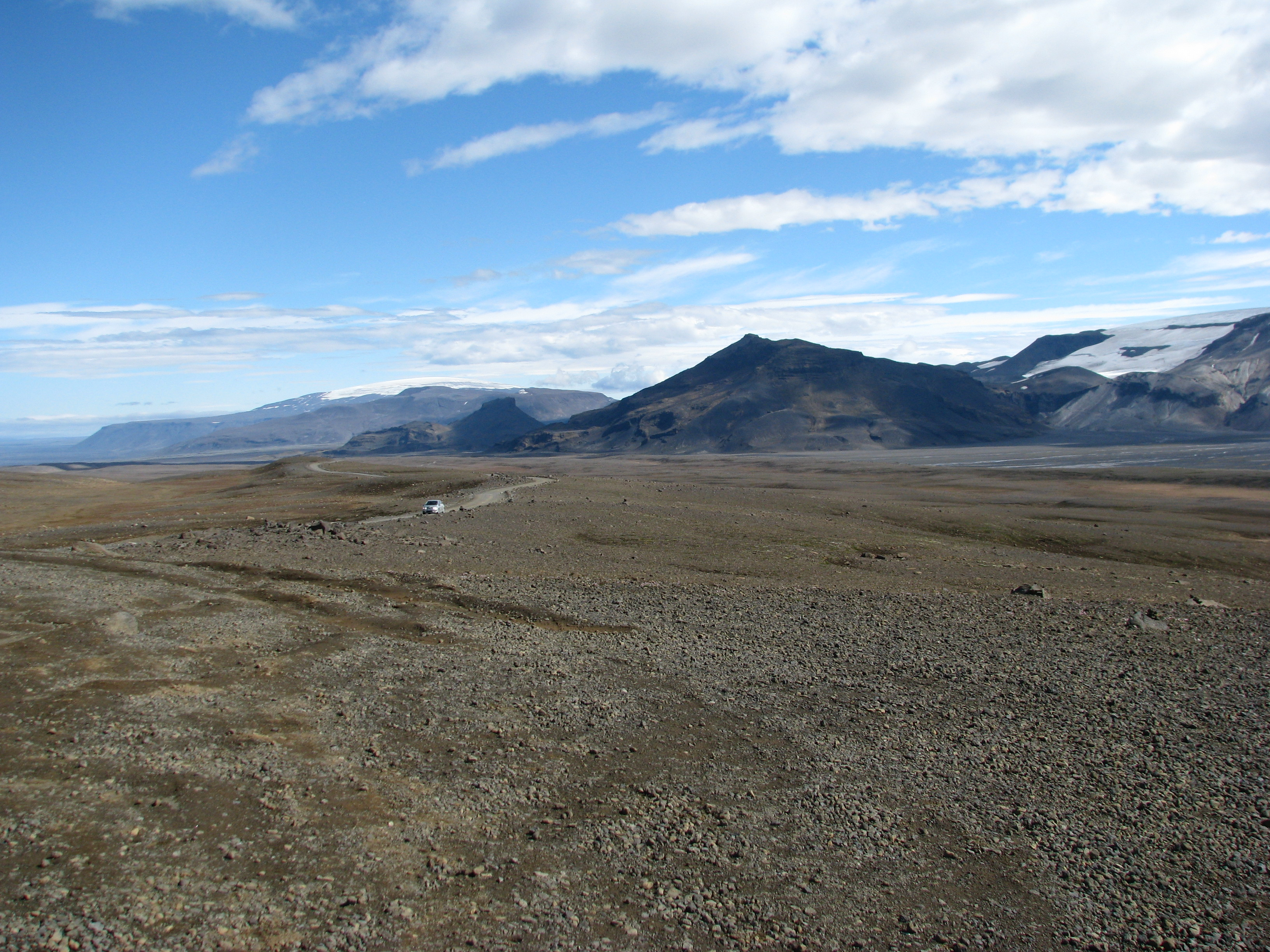 Tha Kaldidalur, a mountainroad in Iceland